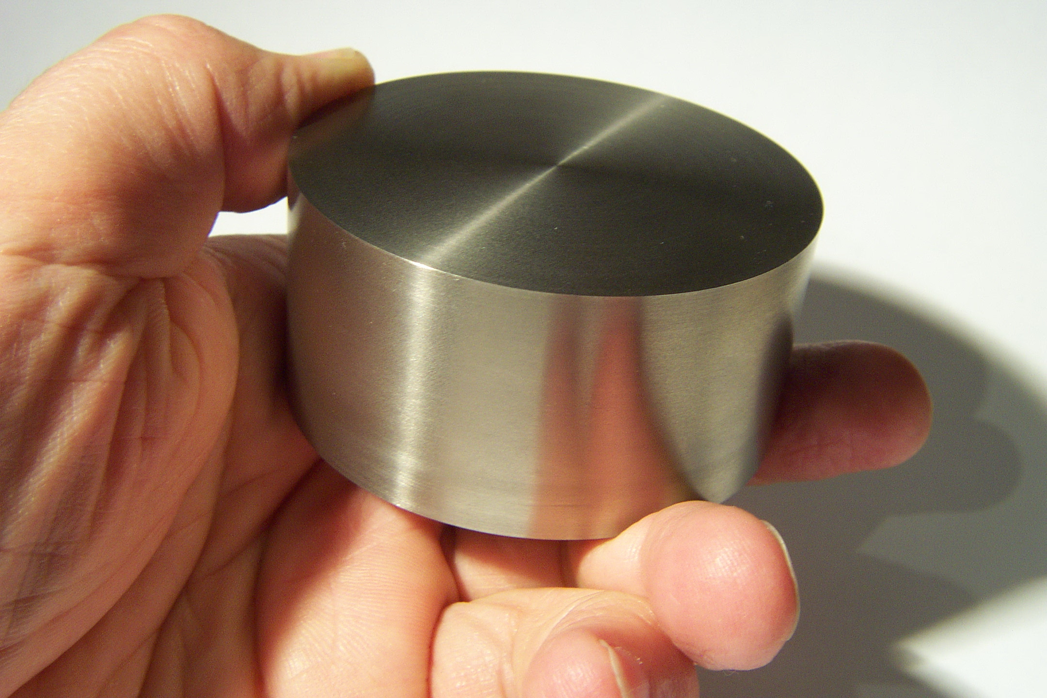 A titanium cylinder, GRADE 2 quality